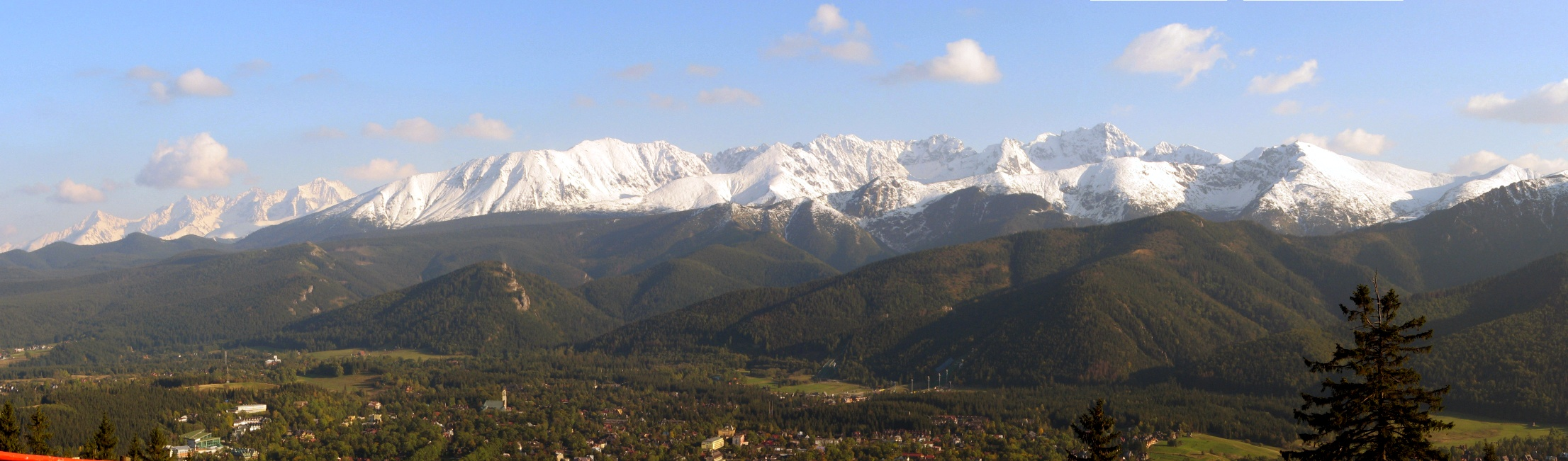 The Tatra Mountains in Poland